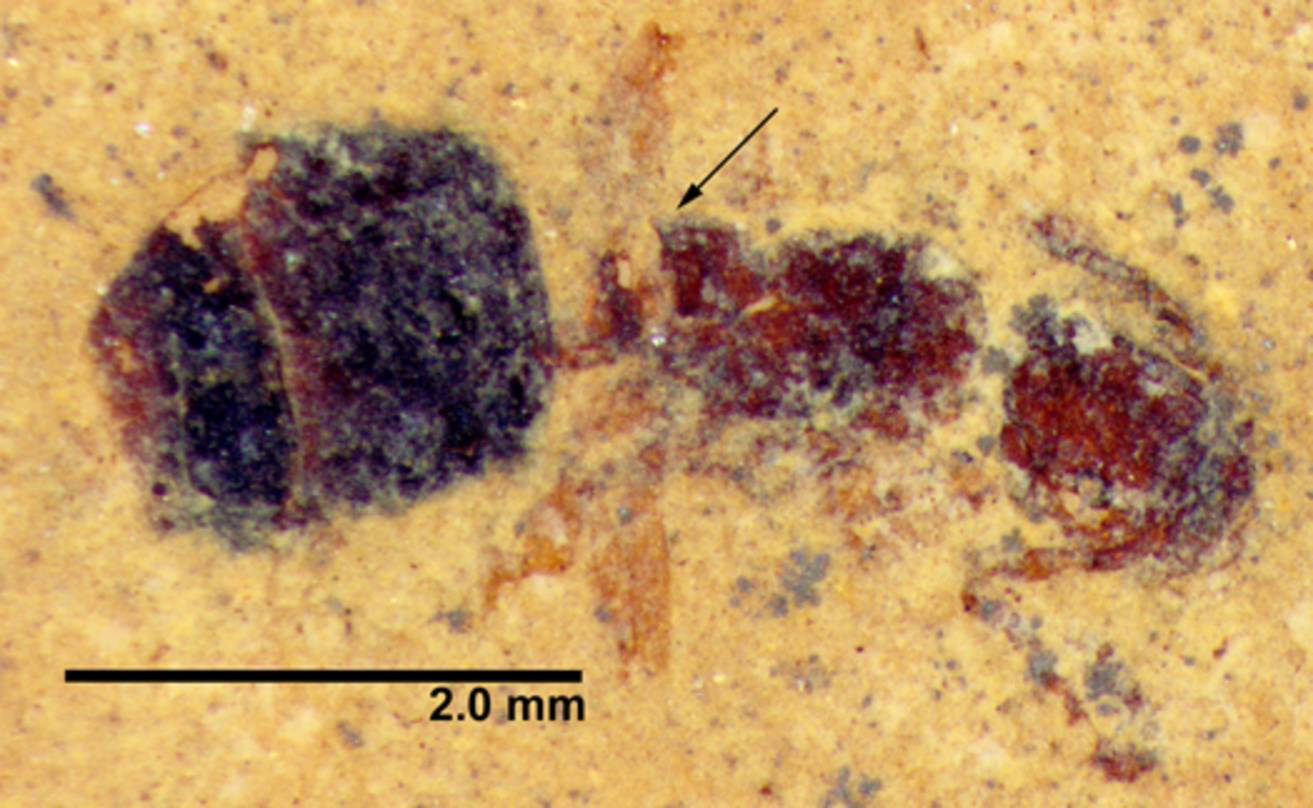 Profile view of the Dolichoderus dlusskyi holotype worker Lutetian, Middle Eocene; Kishenehn Formation; Middle Fork of the Flathead River, Montana. United States. US Natural History Museum, Washington D.C., United States; specimen USNM609584